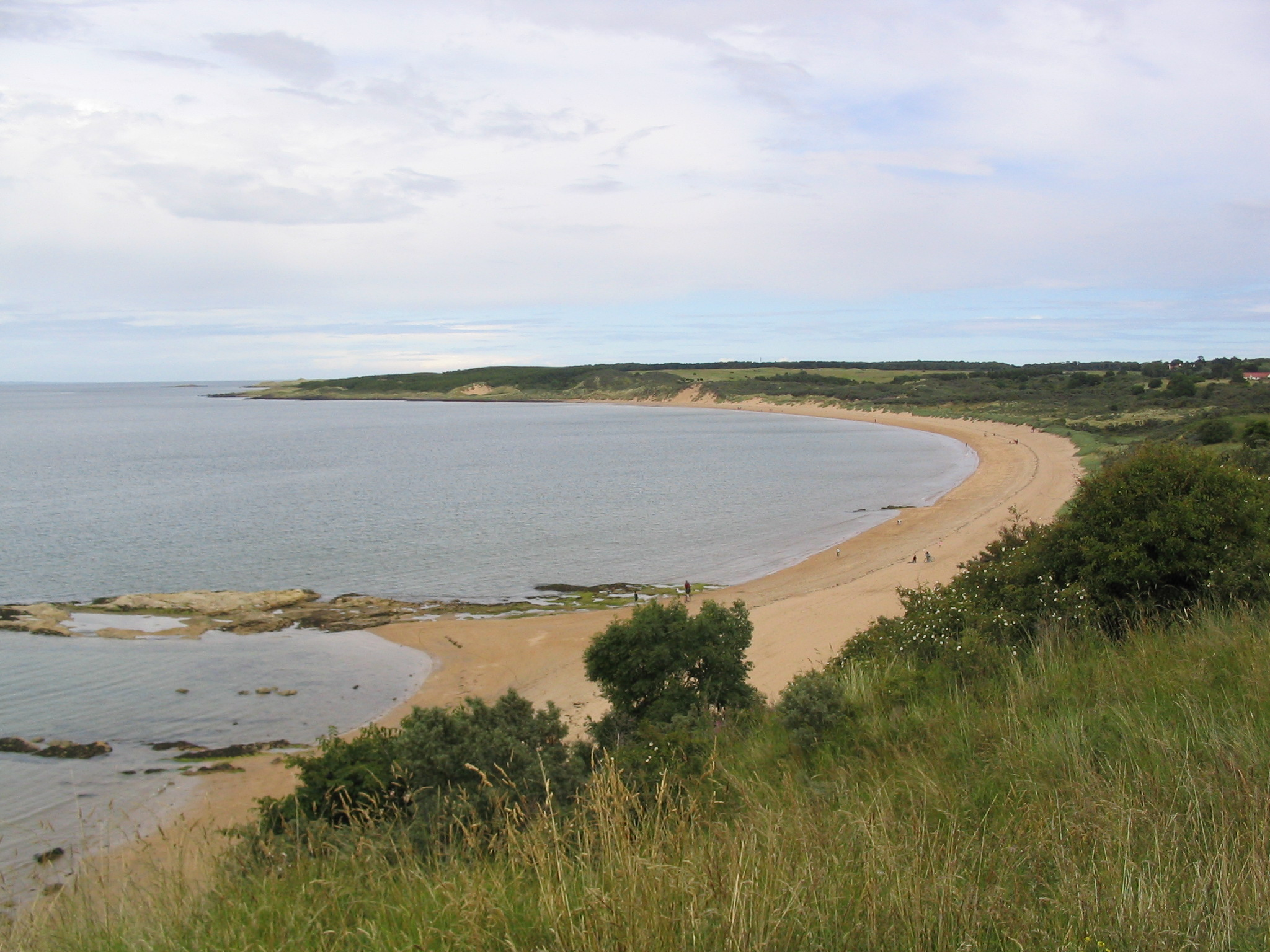 Photograph of Gullane Beach from near the 7th tee of Gullane Number 1 Golf Course, taken by myself (Martin Taylor) July 12 2004